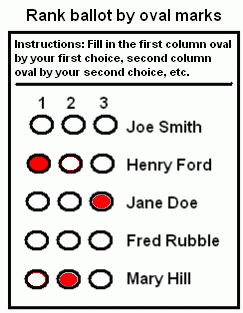 Rank ballot with oval markings - example